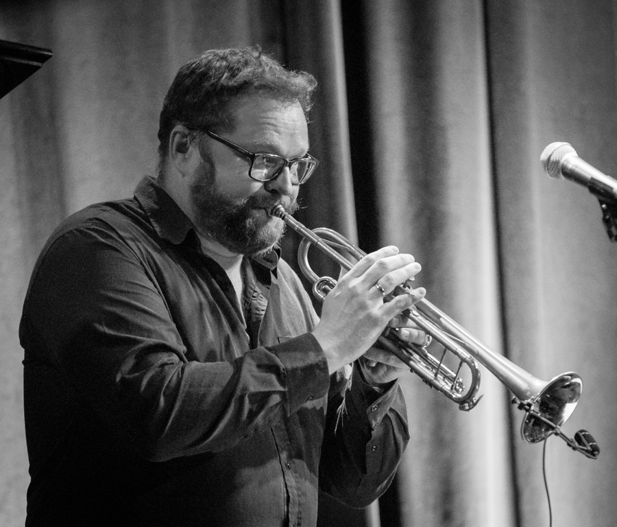 Ole Jørn Myklebust with Torun Eriksen at the stage at Victoria Teater. The concert was part of Oslo Jazzfestival and took place on 17. August 2017. Lineup: Torun Eriksen (vocal), Jørn Øien (piano), Kjetil Dalland (bass guitar), Andres Bye (drums) and Ole Jørn Myklebust (trumpet).